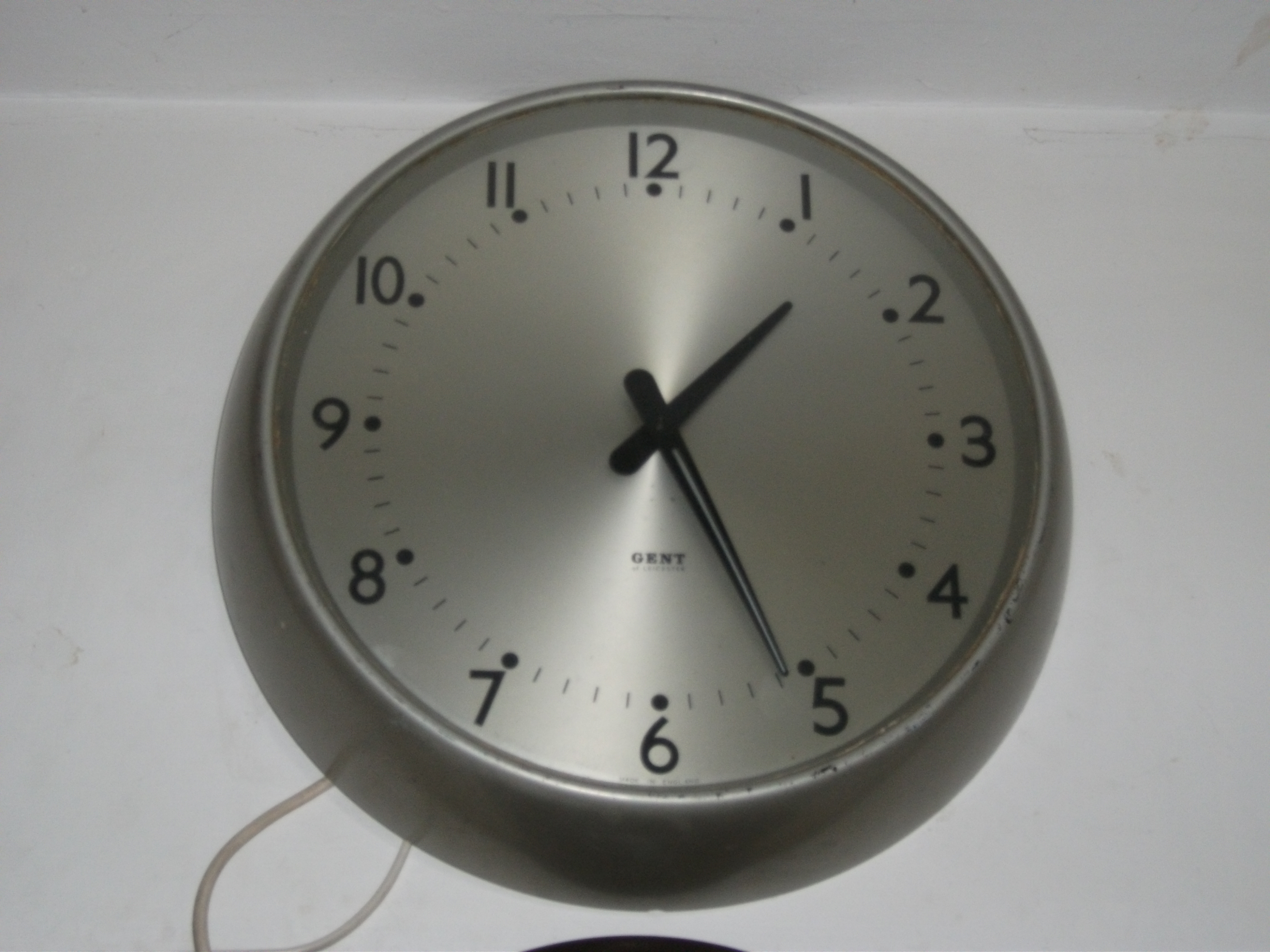 Typical Gents' of Leicester 240-volt electric wall clock, dating to approx. the late 1960s. This is a synchronous clock, that keeps time by the oscillations of the 50 Hz mains power.